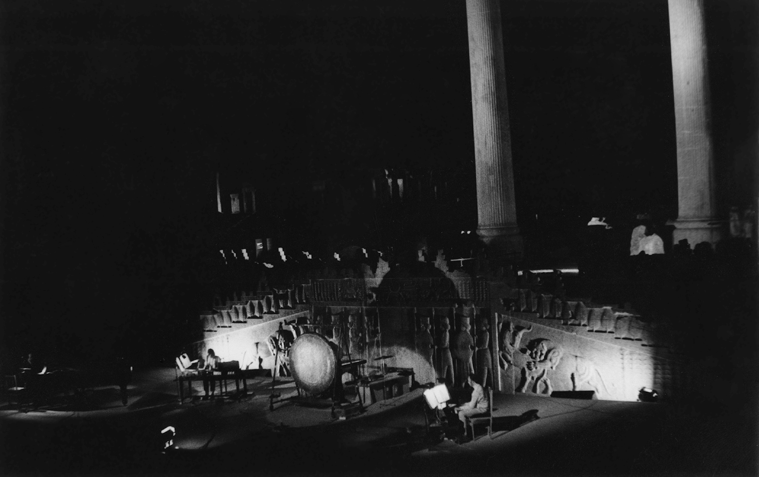 Shiraz Arts Festival, Karlheinz Stockhausen performing at Persepolis, Iran